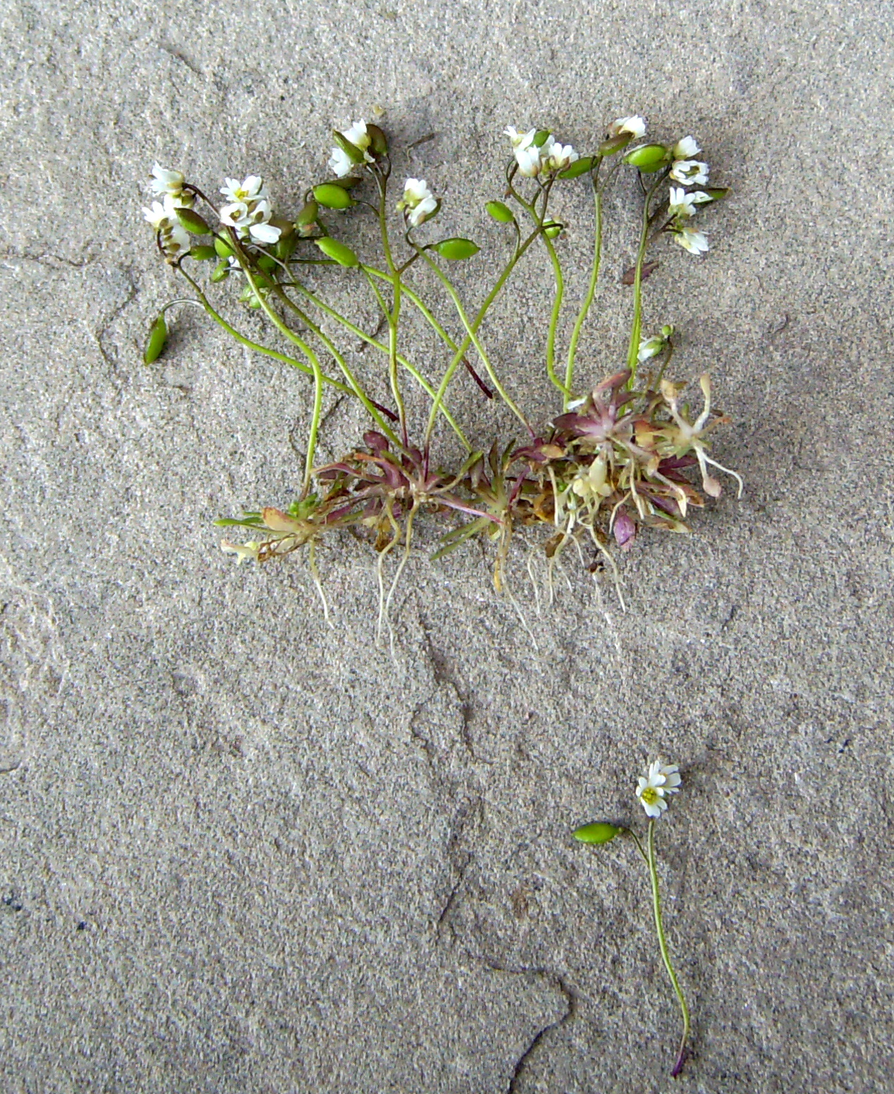 Erophula verna, flowering (February 16 840 m asl), Castelltallat, Catalonia